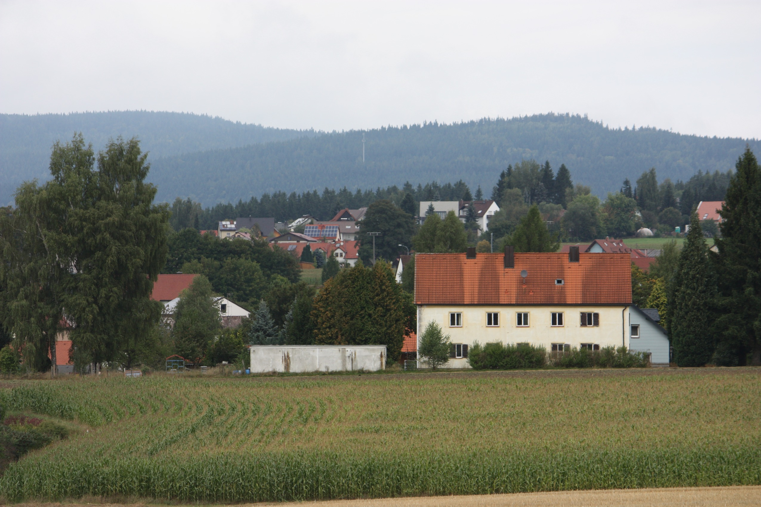 Brand (Oberpfalz), view from south to the village